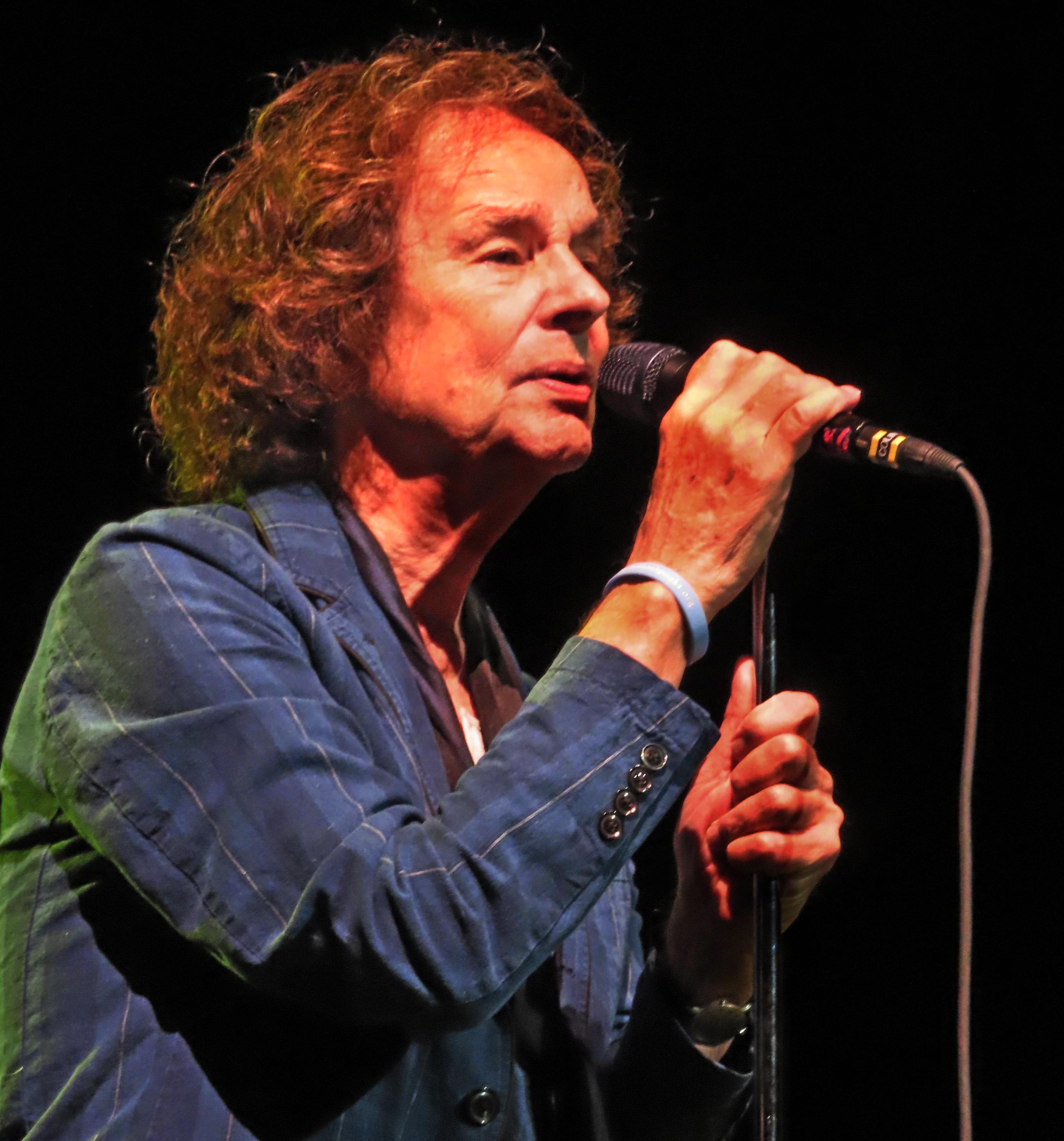 Colin Blunstone performing on tour in September 2019.